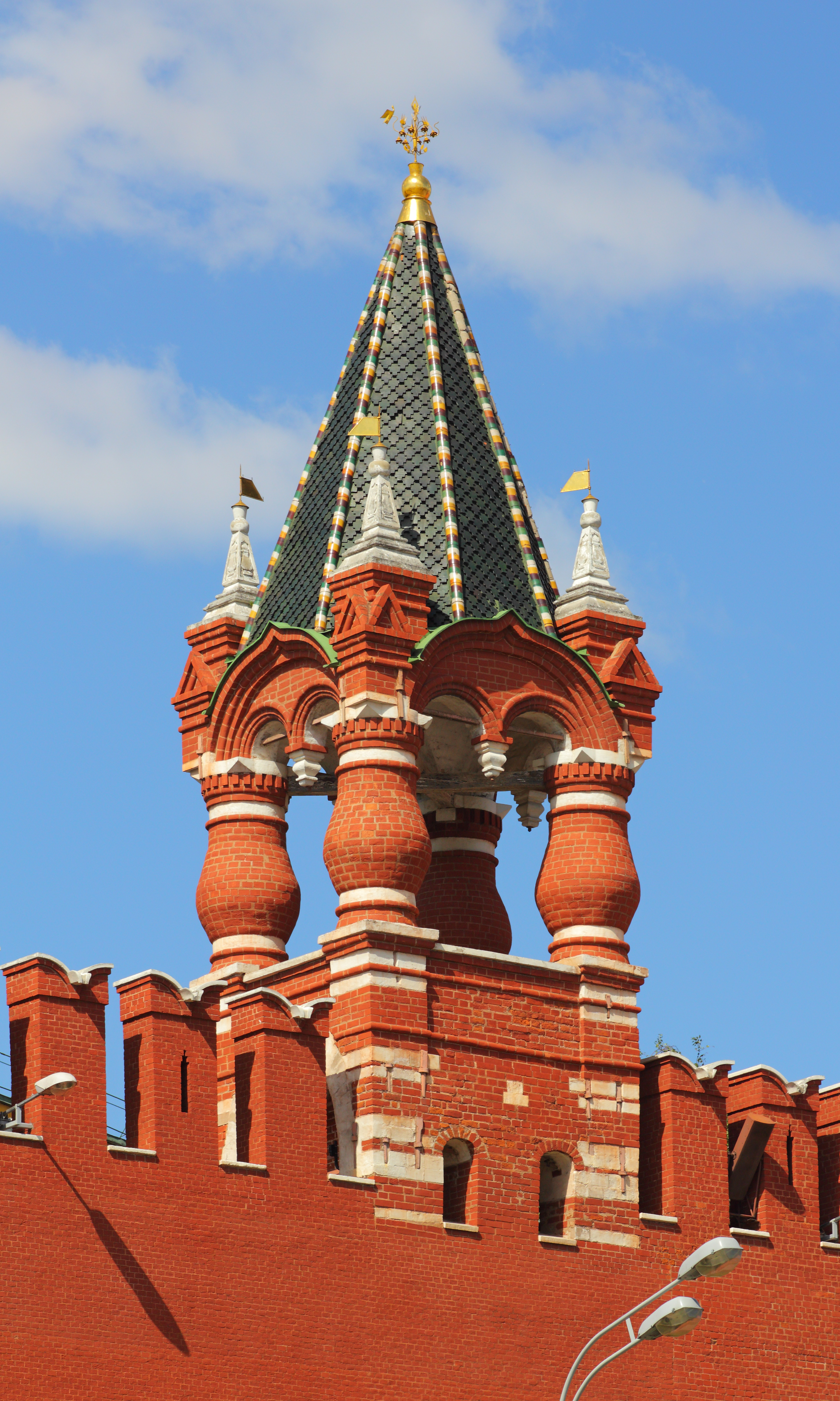 Moscow, Russia. Tsarskaya (Czar) Tower of the Moscow Kremlin.